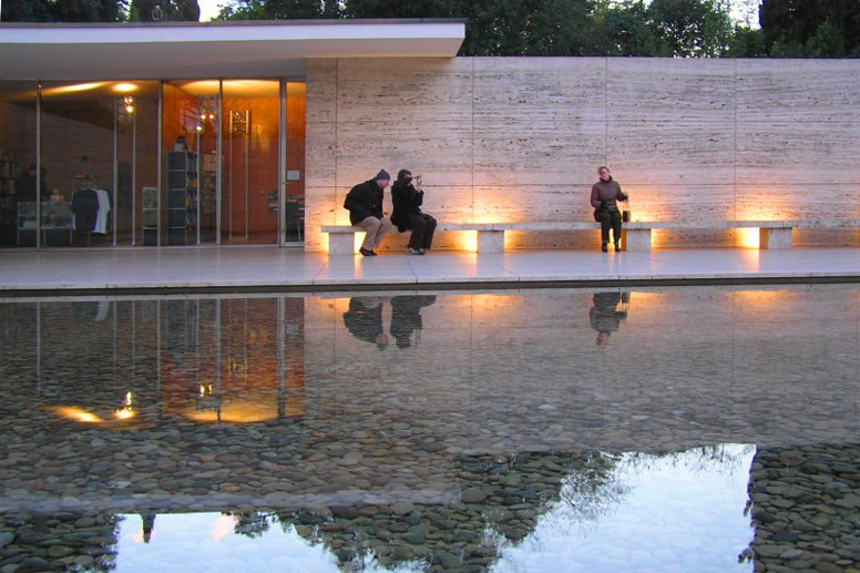 The Barcelona Pavilion. Built by Ludwig Mies van der Rohe in 1929 for the Universal exhibition. reconstruction 1983–1989